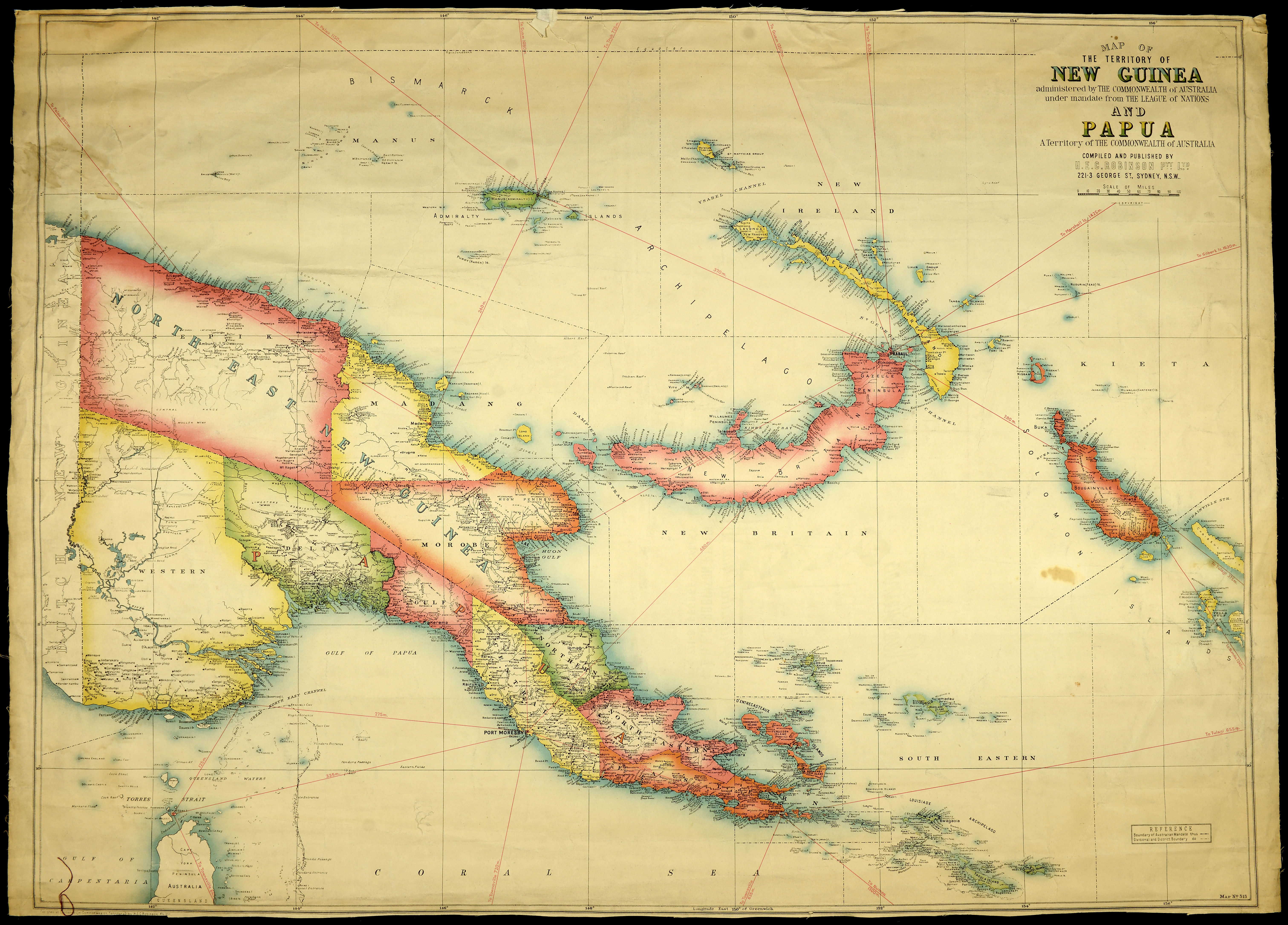 On 16 September, 1975, Papua New Guinea was officially recognised as an independent territory. From 1885, control of the territory now known as Papua New Guinea was shared between two global powers; Germany and Britain. However, twentieth century global politics hugely influenced the islands. In 1906 the United Kingdom transferred its administrative authority to Australia, and both World War One and World War Two impacted Papua New Guinea’s governance and native populations. It wasn’t until 1975 that the former colony finally became a self-governing, sovereign State. Title: Territory of New Guinea and Papua (R20086433) Date: Unknown Archives reference: AAPR W3141 Box 8 315 For further enquiries please For updates on our On This Day series and news from Archives New Zealand, follow us on Twitter Material from Archives New Zealand Caption information from Radio New Zealand